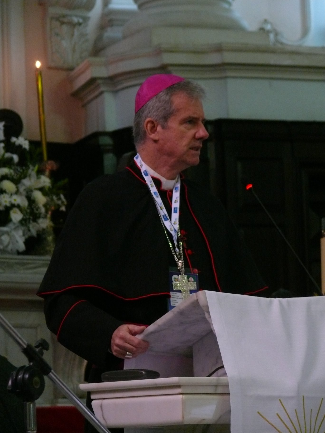 Archbishop Christian Lépine of Montréal (Canada) during World Youth Day 2013 in Rio de Janeiro (Brazil).